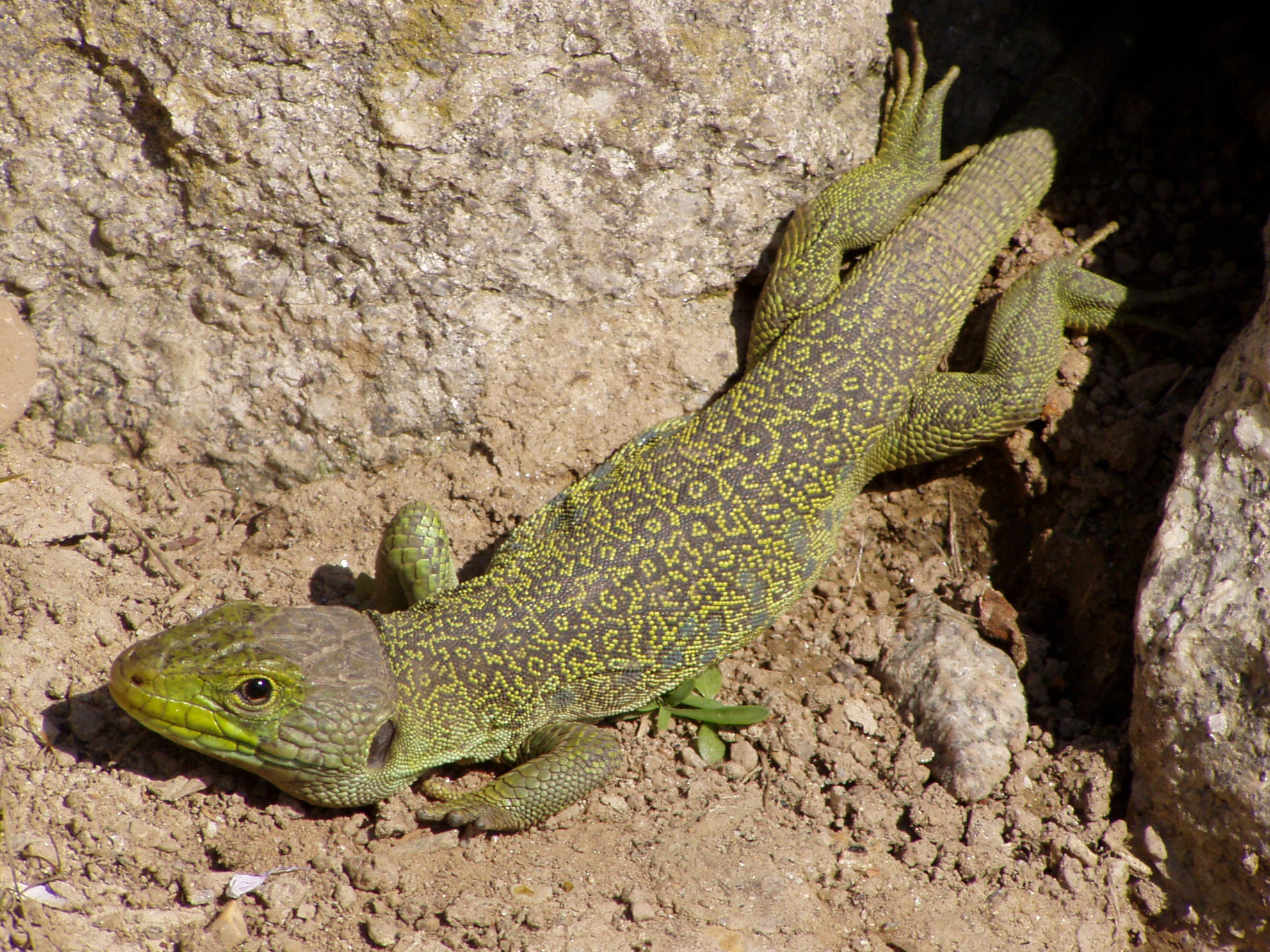 Eyed Wall Lizard